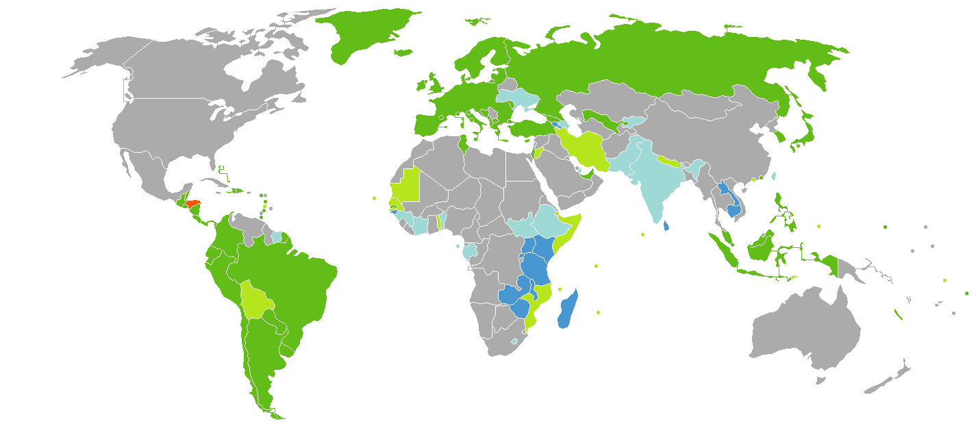 Visa requirements for Honduran citizens Honduras Visa free access Visa on arrival Visa on arrival or eVisa eVisa Visa required